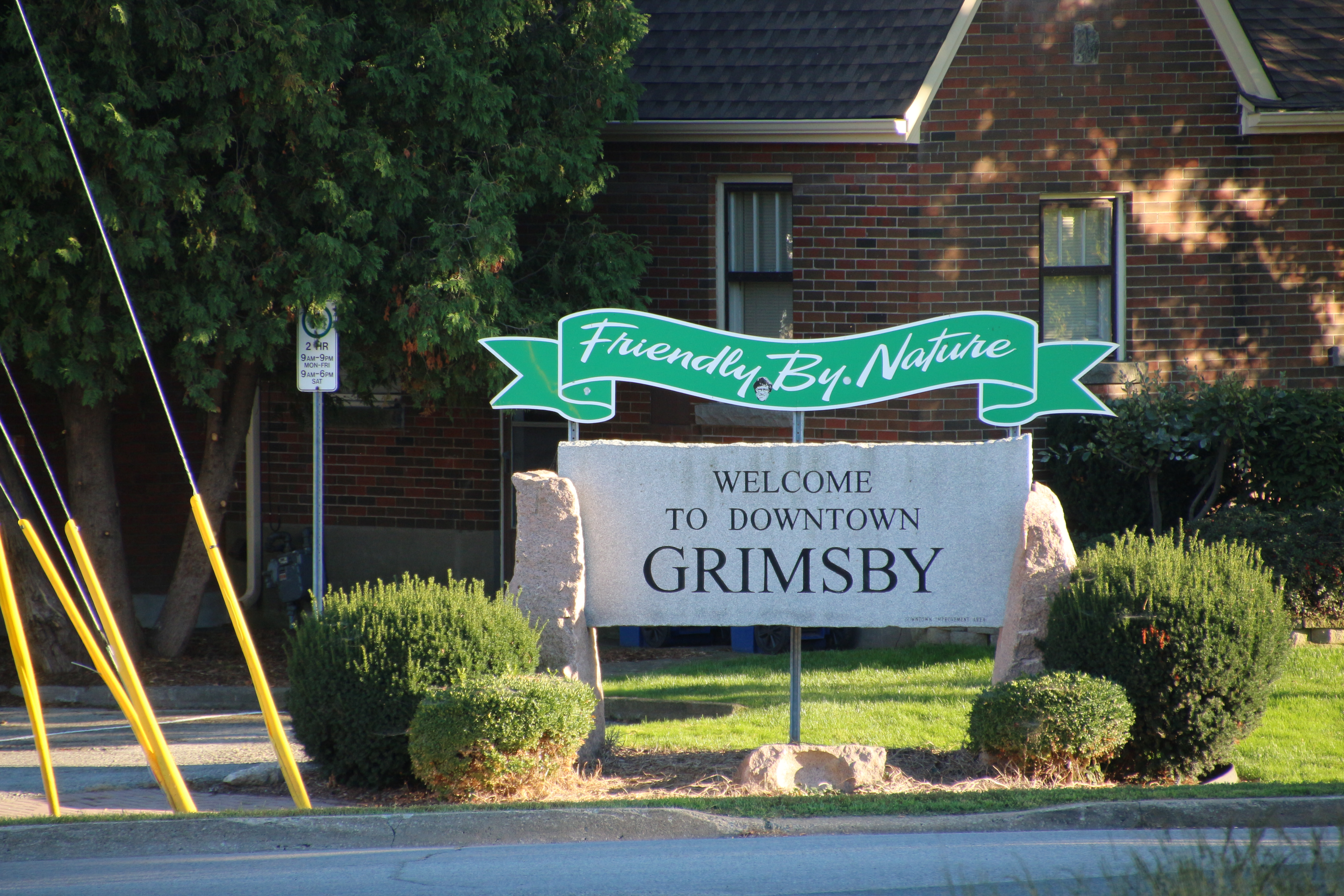 Welcome outside the downtown area of Grimsby, Ontario